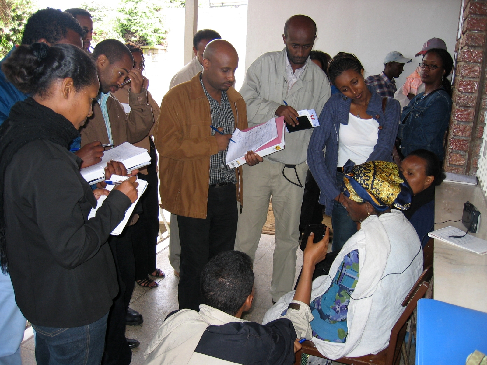 Journalist training in Ethiopia